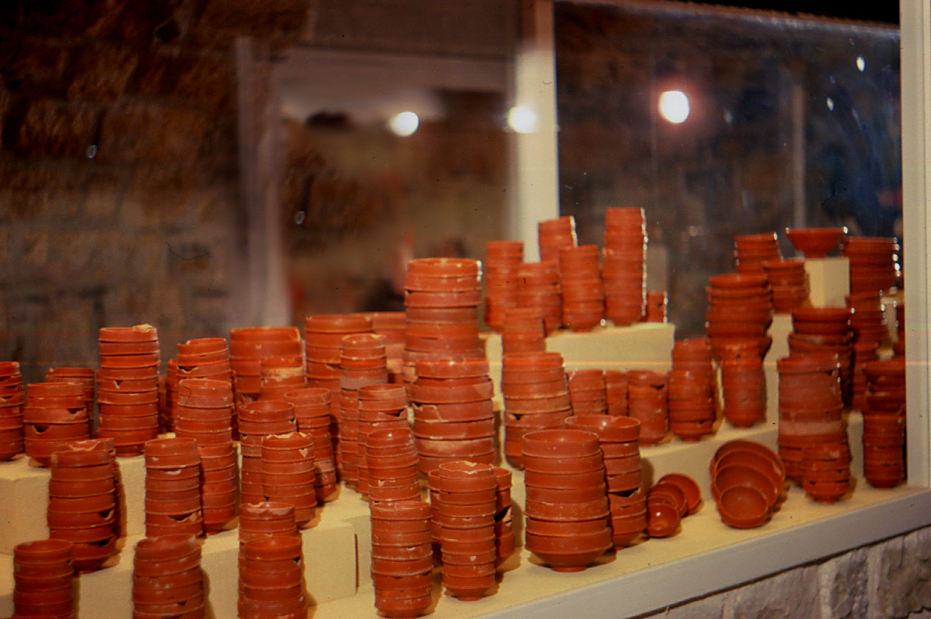 South Gaulish samian ware displayed in Millau Museum, illustrating the standardisation of sizes and forms. Millau Museum, France. Photographed May 1980.